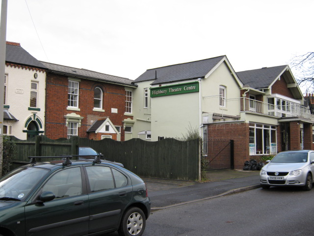 Highbury Theatre, Boldmere View from Sheffield Road (one-way street) looking at frontage of Theatre. To left, often missed, are a number of well-maintained houses, older than many others in the road.